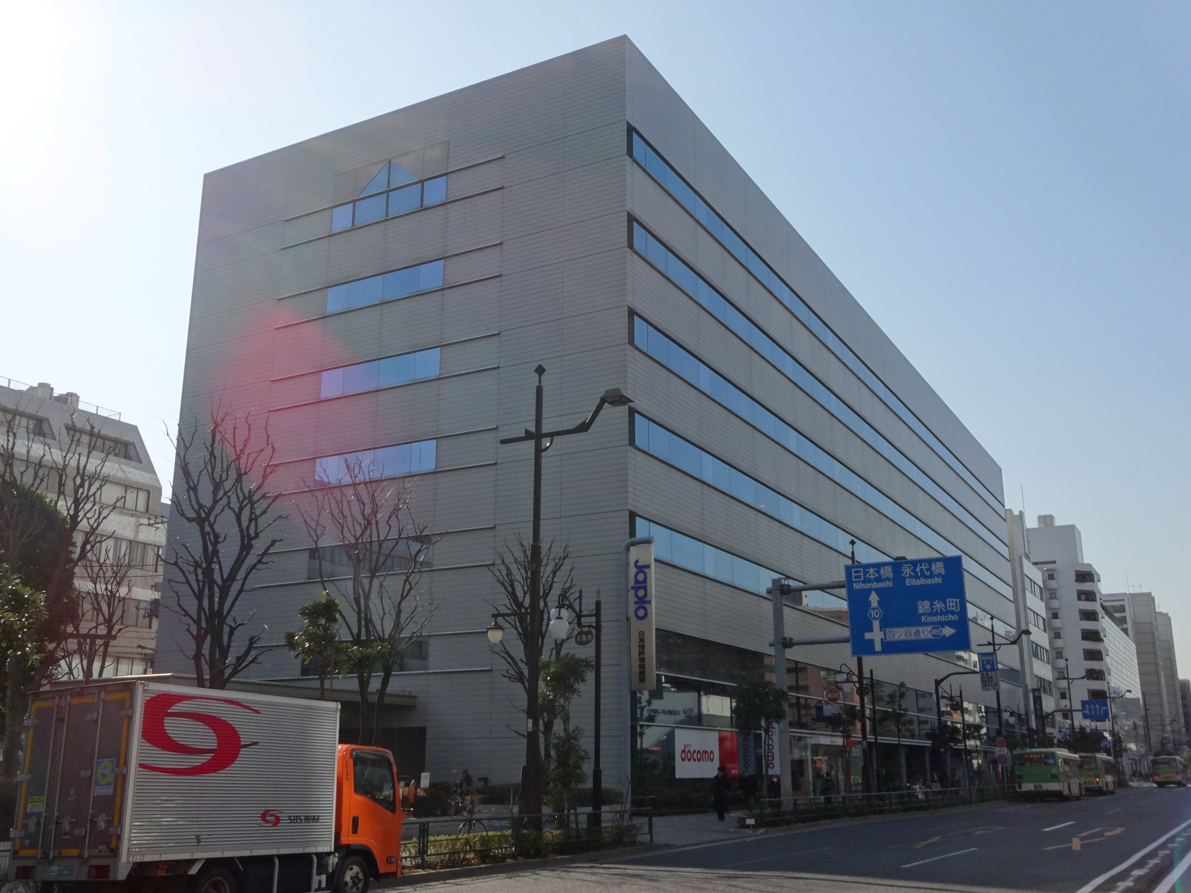 Sato Diamond building（Koto-ku,Tokyo,Japan) Japan Patent Information Organization(Japio)is in this building.